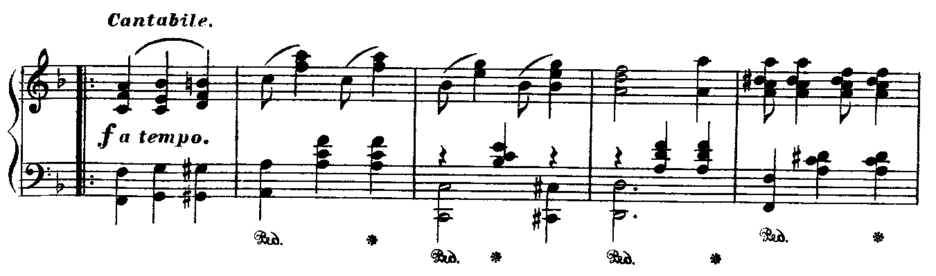 "C" Theme from Bethena, A Concert Waltz, by Scott Joplin, bars 77-81.